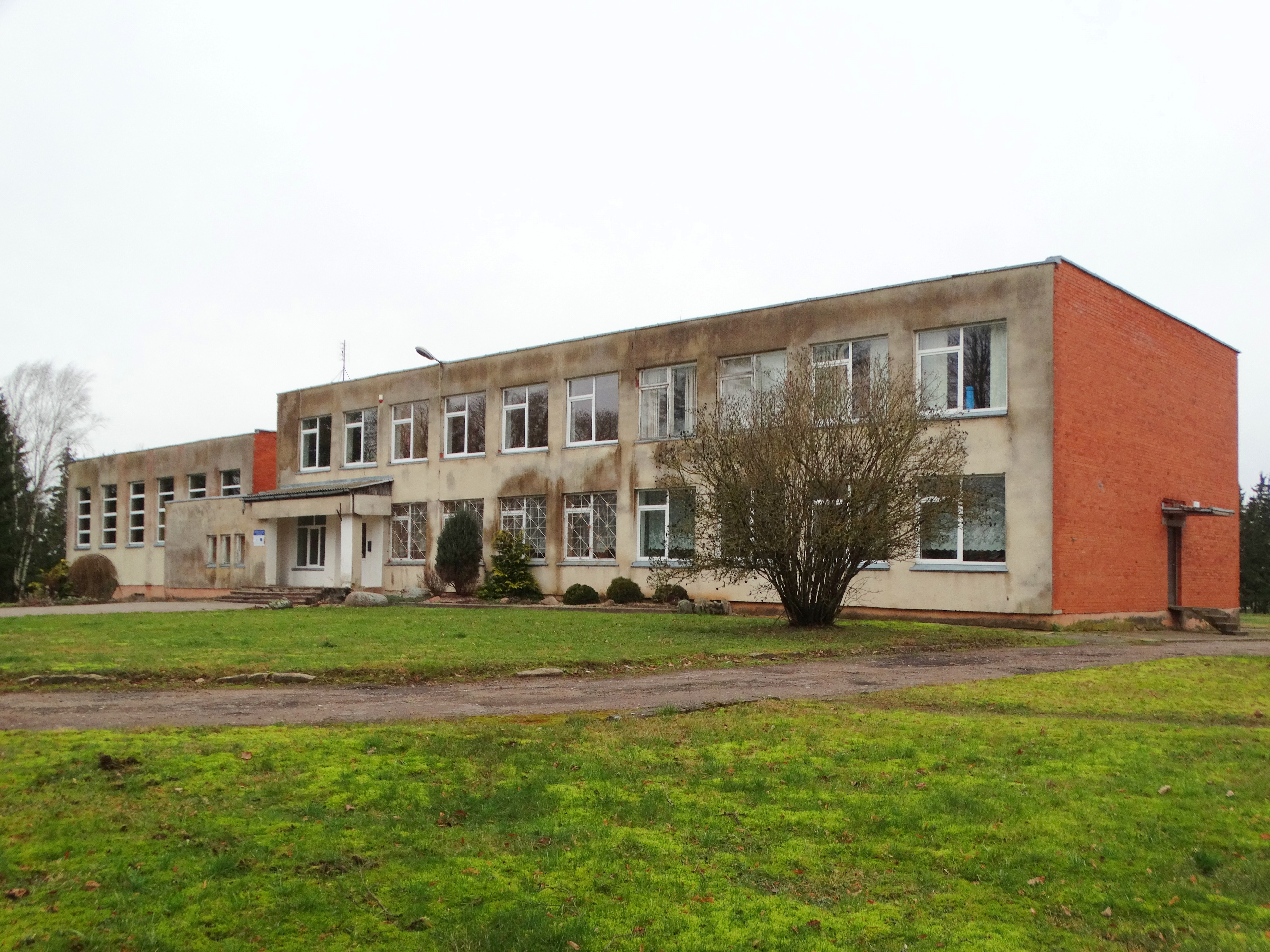 School, Kaukolikai, Skuodas District, Lithuania